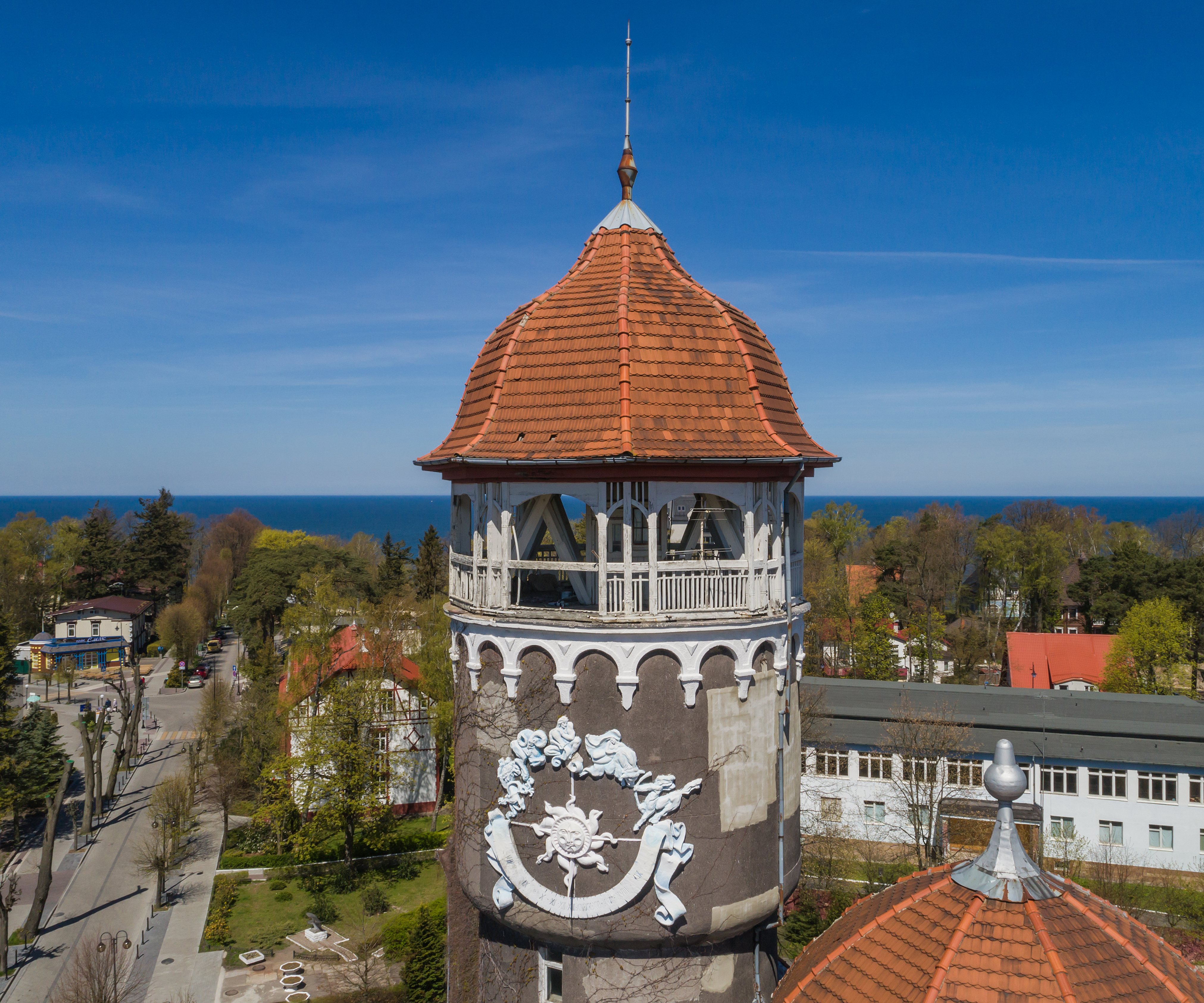 Historical water tower in Svetlogorsk formerly Rauschen / Kaliningrad Oblast (Russia).